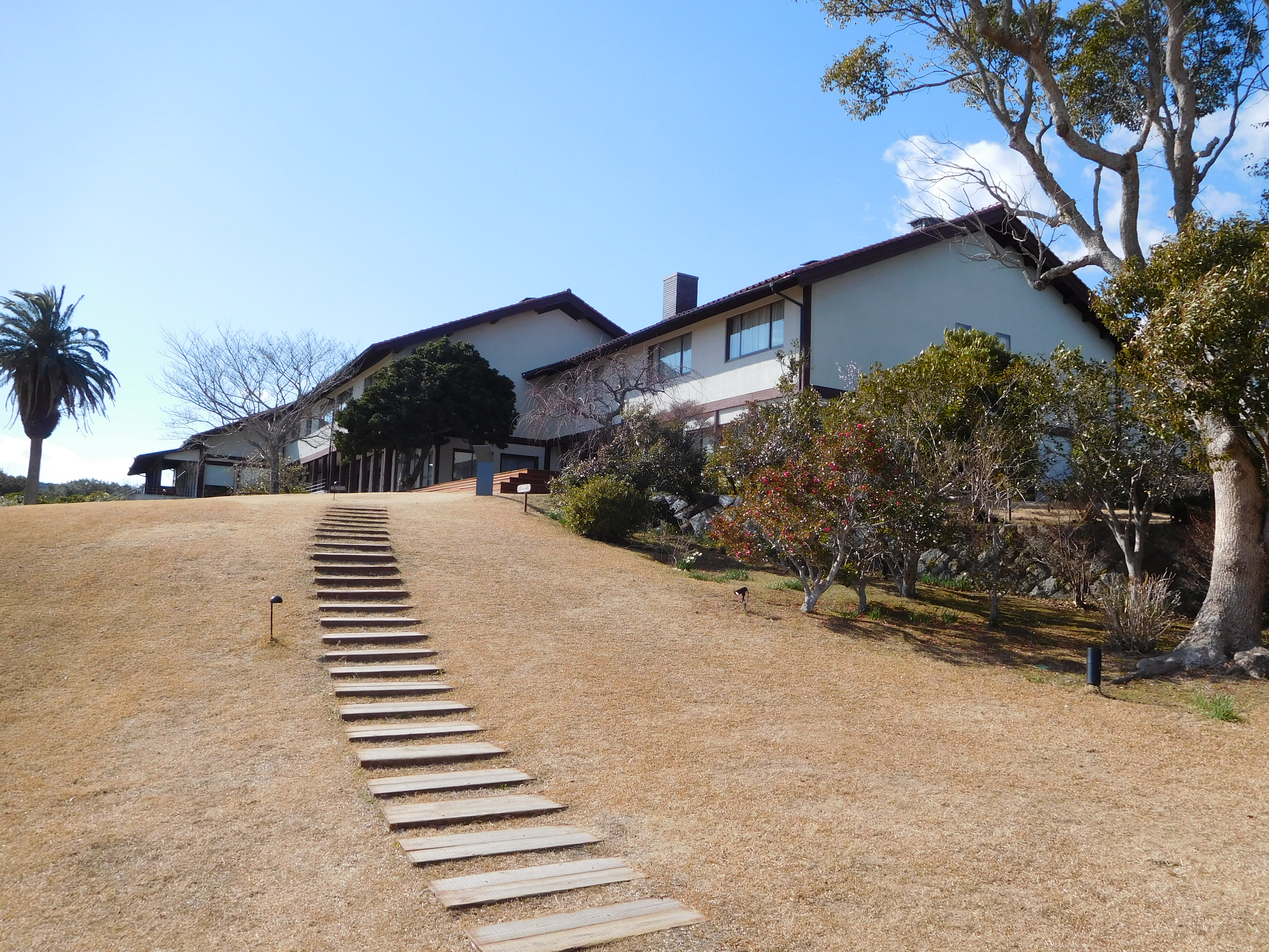 This is the CLUB of Shima Kanko Hotel in Shima, Mie, Japan.